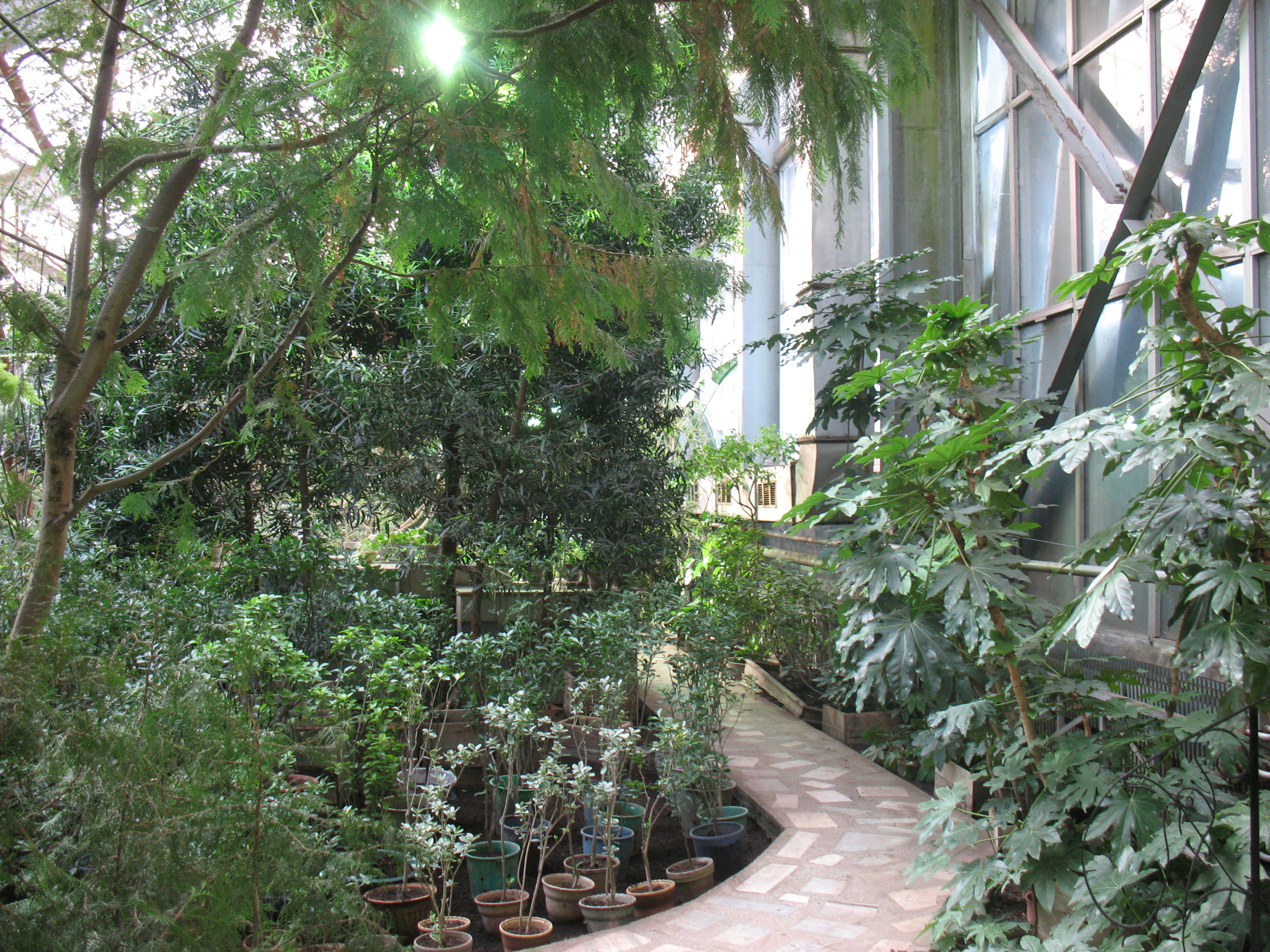 Оранжерея Сибирского ботанического сада